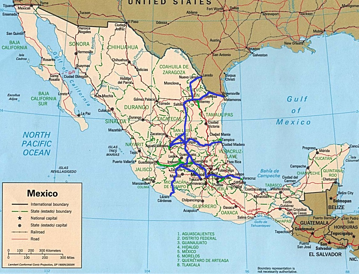 Map of the Kansas City Southern de Mexico based on [1] blue - own track, green -trackage rights